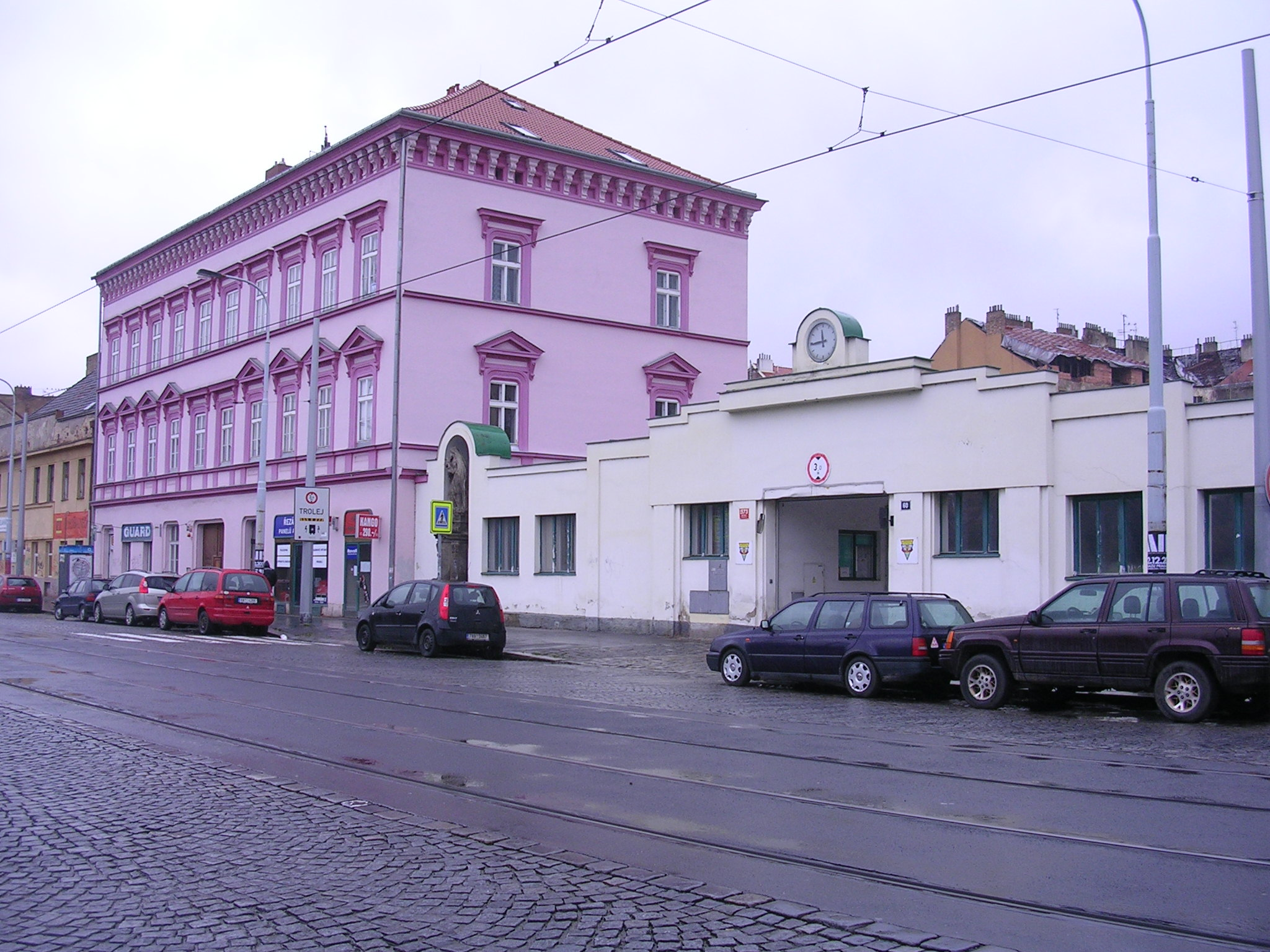 Prague, Smíchov, the Czech Republic. Nádražní street. - Google Maps - Google Earth